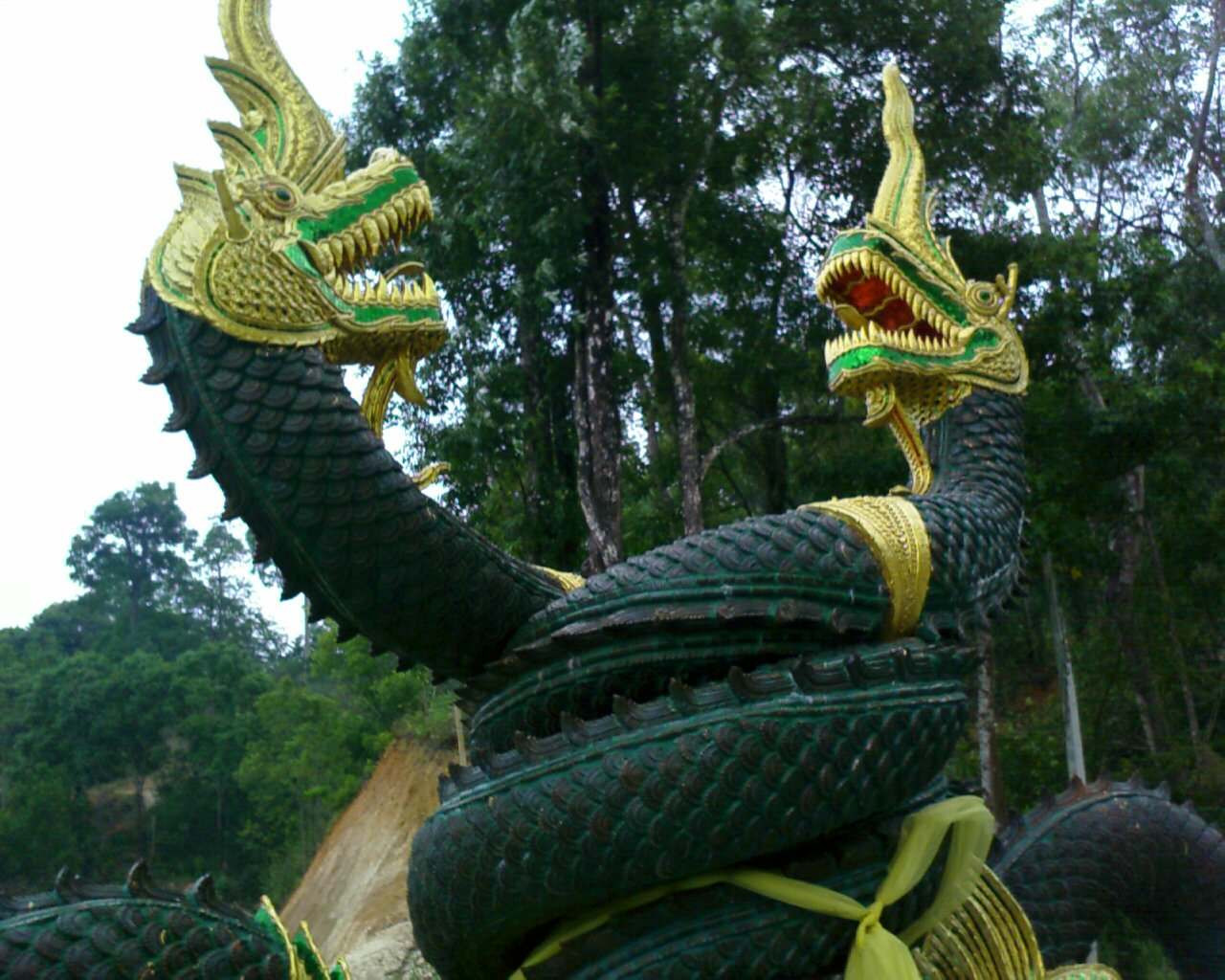 Naga (Dragon) in Wat Phra Puttha Baht Si Roi (The Monastery of the Four Footprints of The Buddha), Mae Rim District, Chiang Mai Province, Thailand